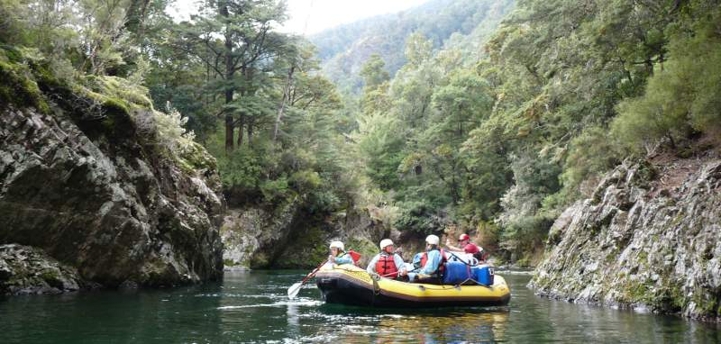 In the Kaweka Forest Park, Hawke's Bay.